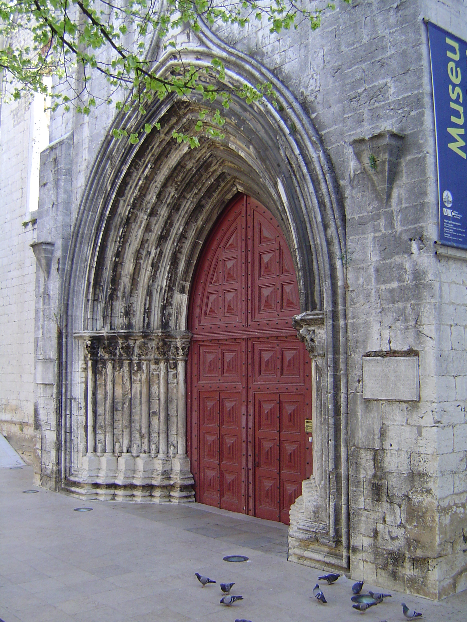 Main portal of the Carmo Church, Lisbon, Portugal